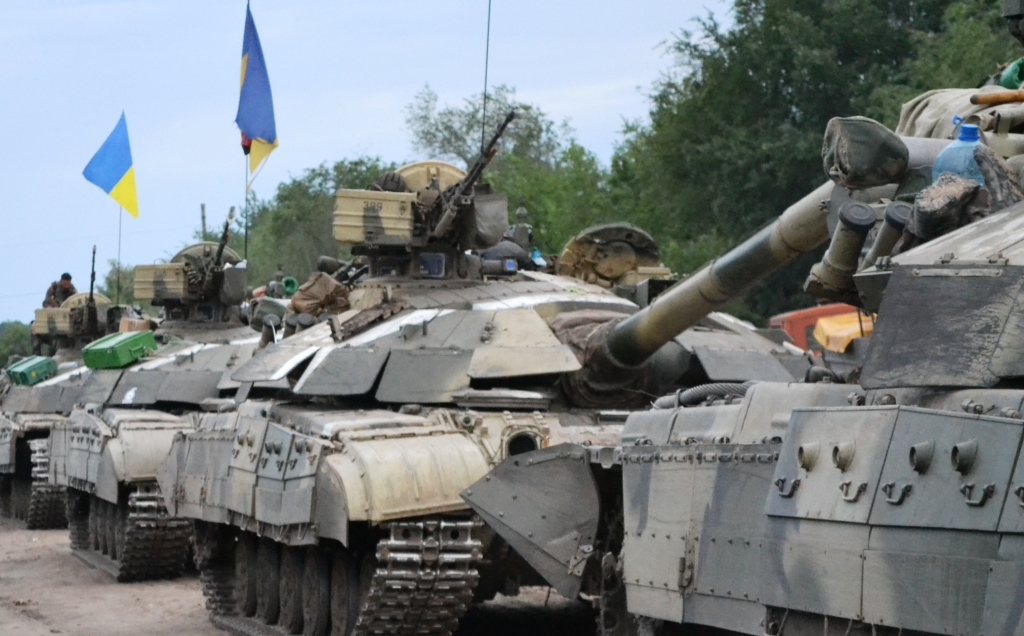 Anti-terrorist operation in eastern Ukraine (War Ukraine).